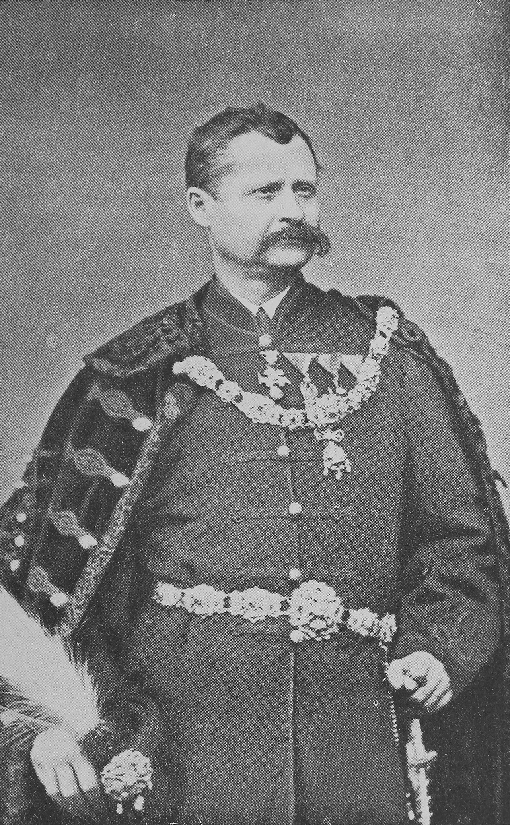 Adolf Dobryansky. Budapest, 1866.